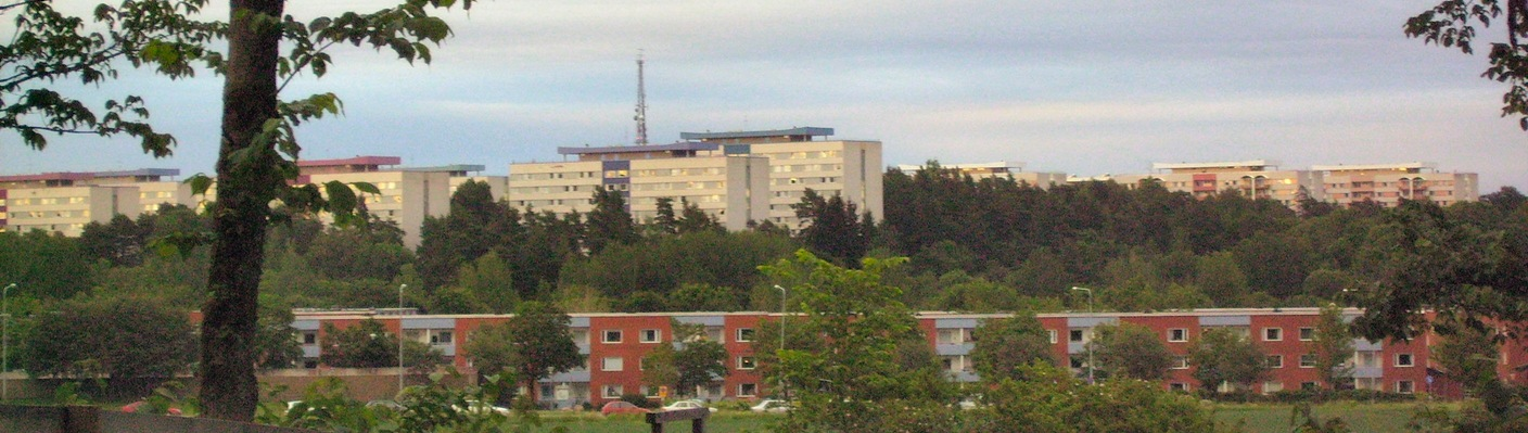 Part of the suburban district Flogsta in the city of Uppsala, Sweden, including a part of Hamberg (red brick houses in front). Most of the inhabitants of Flogsta are students attending Uppsala University or the Swedish University of Agricultural Sciences.